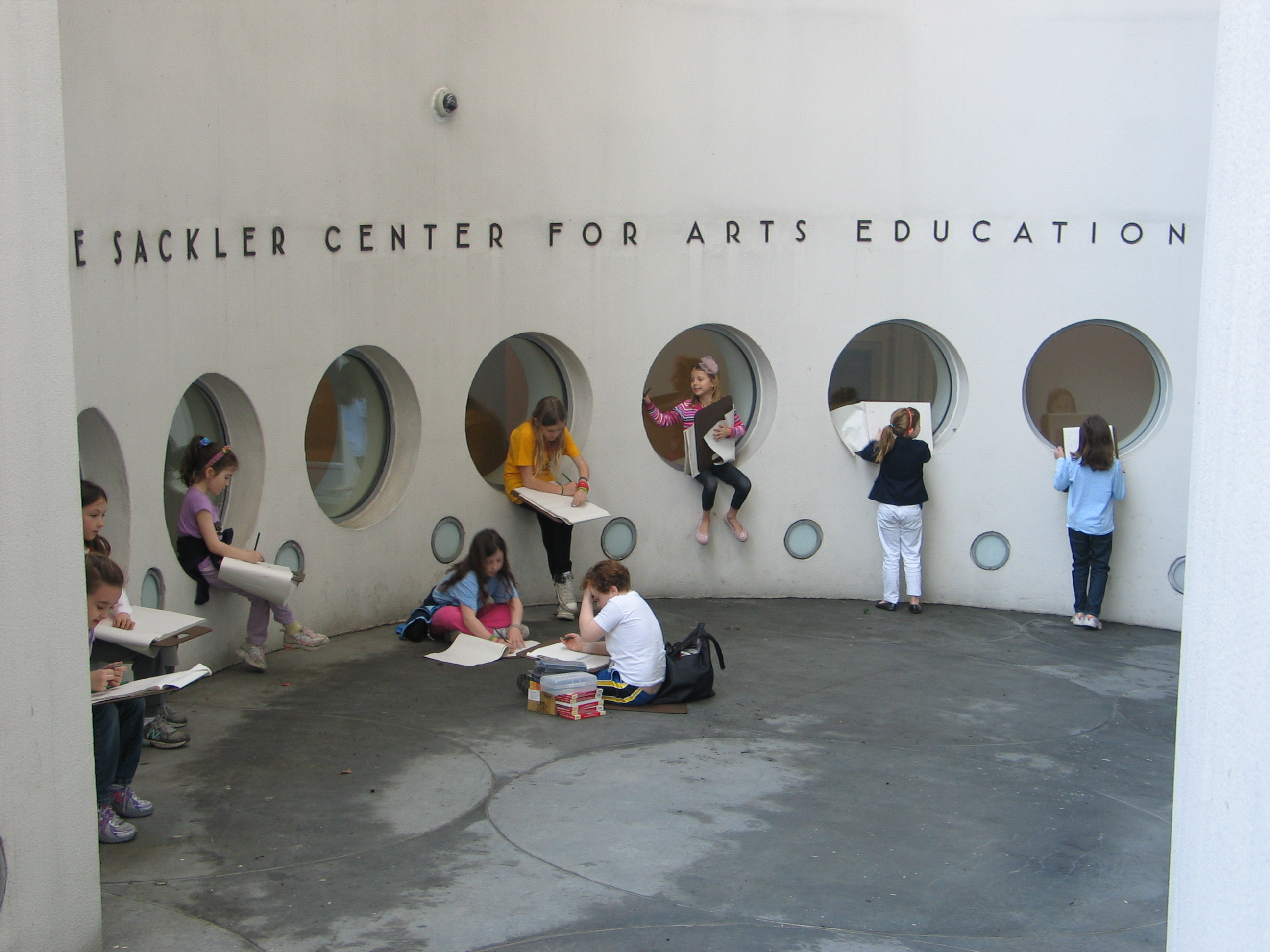 This image of students drawing at the 5th avenue and 88th street entrance to the Sackler Center for Arts Education was taken by Carolina Zamora in March 2012 while employed at the Solomon R. Guggenheim Museum. The parents of the students pictured signed photo releases.